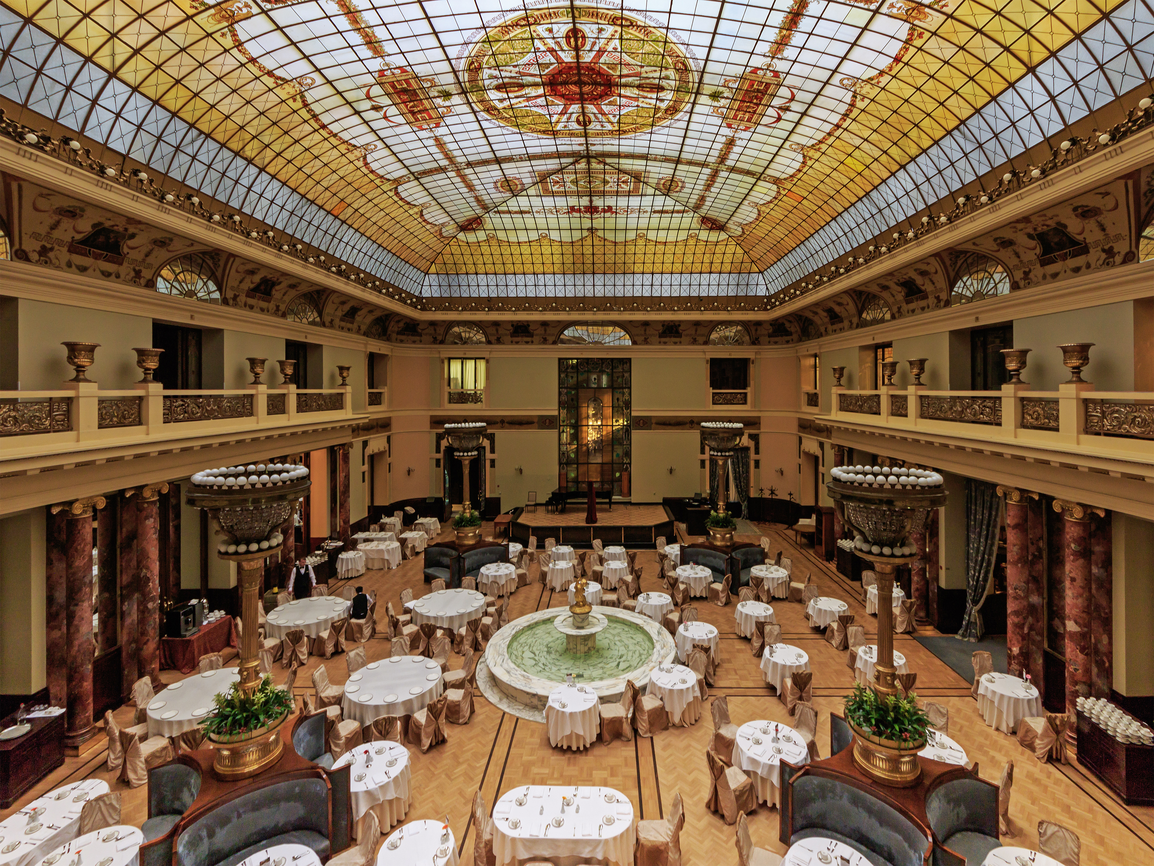 Atrium (restaurant hall) of Hotel Metropol in Moscow (Russia).